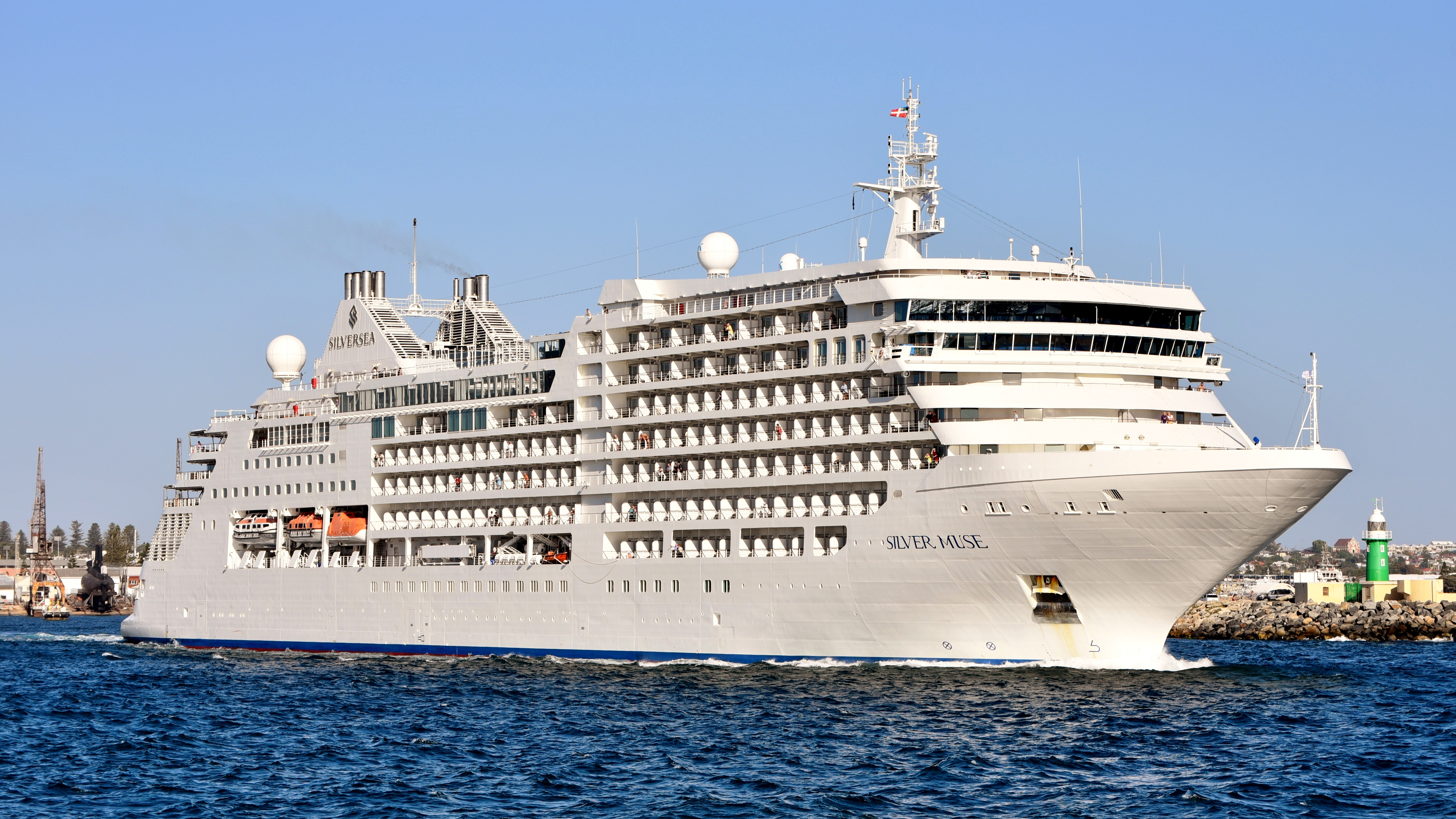 Cruise ship Silver Muse departing from Fremantle Harbour, Western Australia, on Voyage 6904, an 11-night Adelaide to Benoa (Bali) cruise